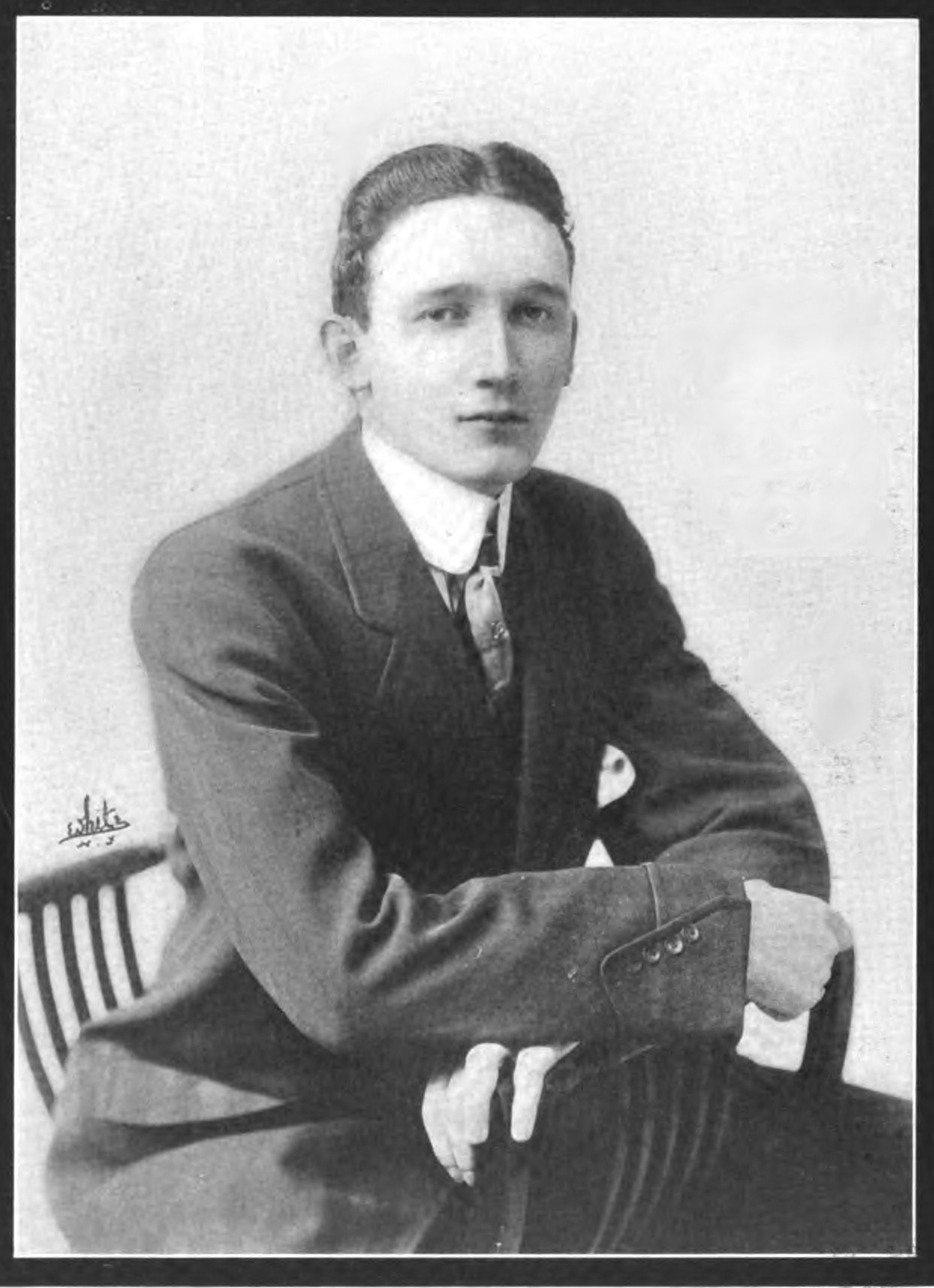 Thomas J Gray was a Vaudeville writer